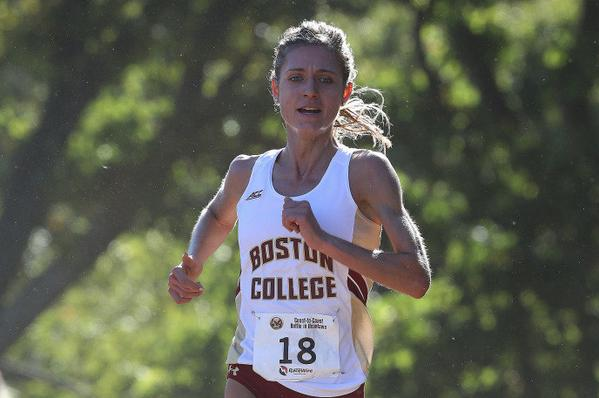 Liv Westphal lors d'une compétition de cross-country à Boston